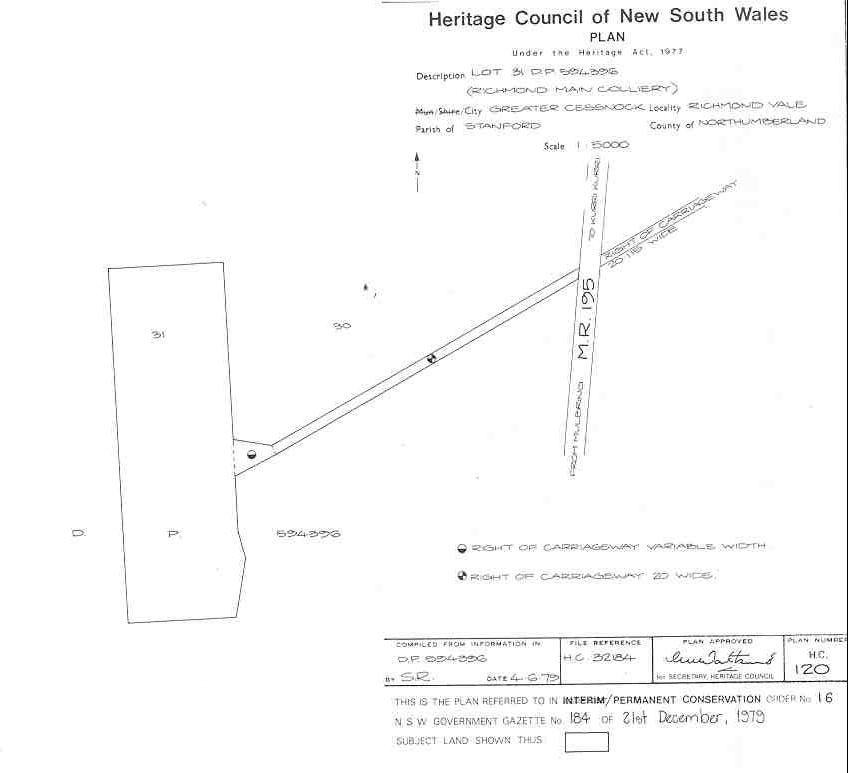 Richmond Main Colliery: PCO Plan Number 016